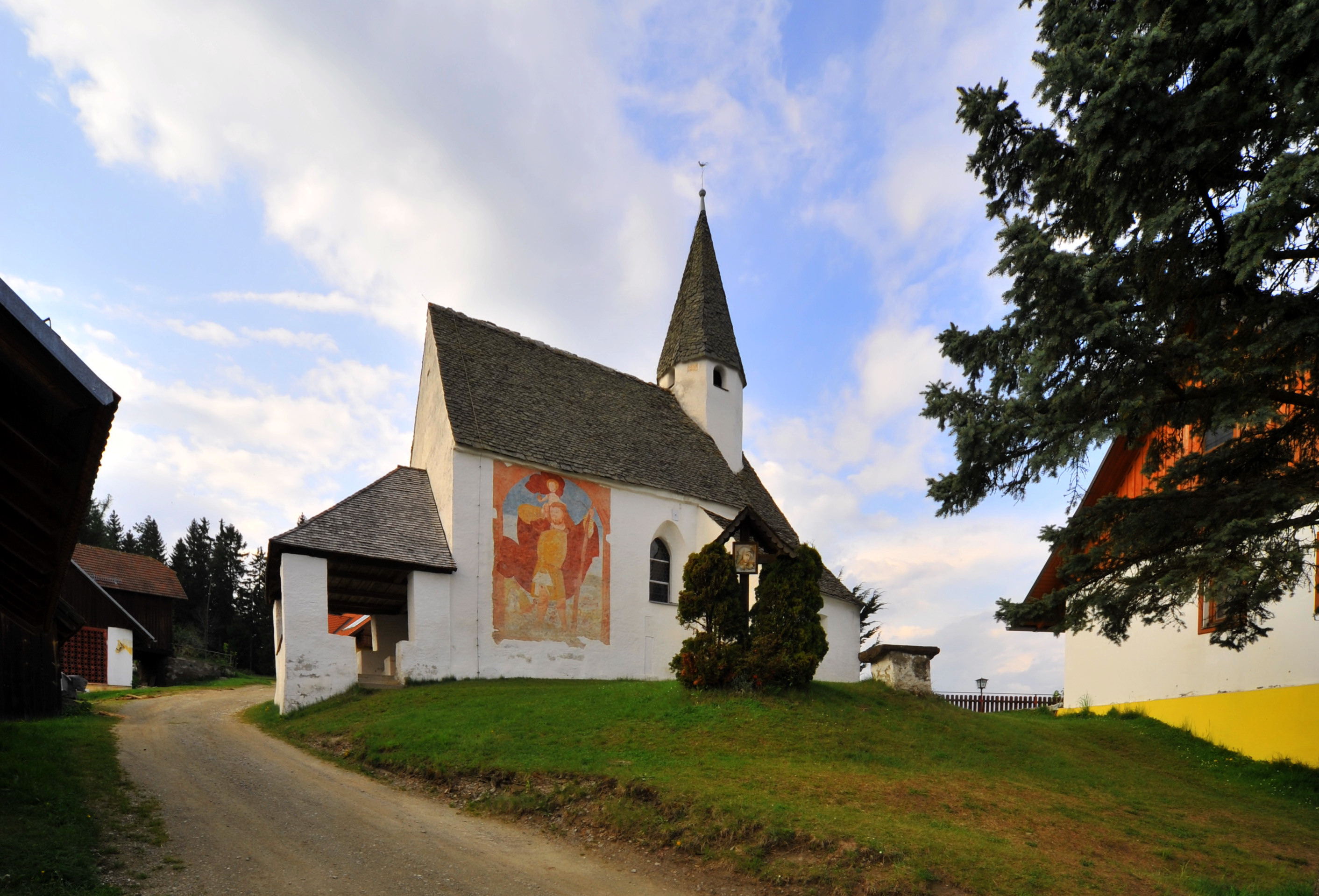 Subsidiary church Saint Lawrence in Lorenziberg, municipality Frauenstein (Austria), district Sankt Veit an der Glan, Carinthia, Austria, EU